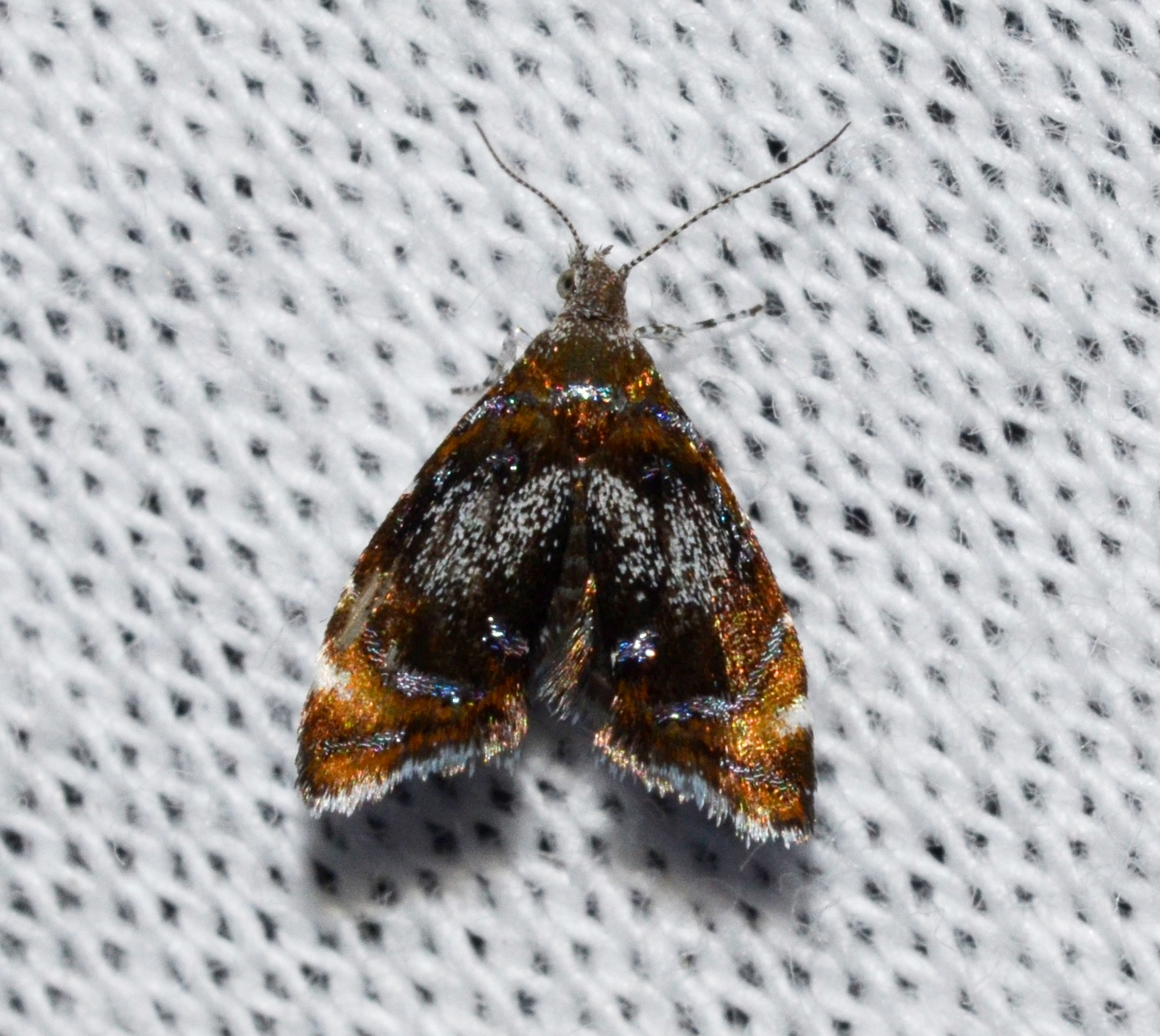 Mothing Night 718/14